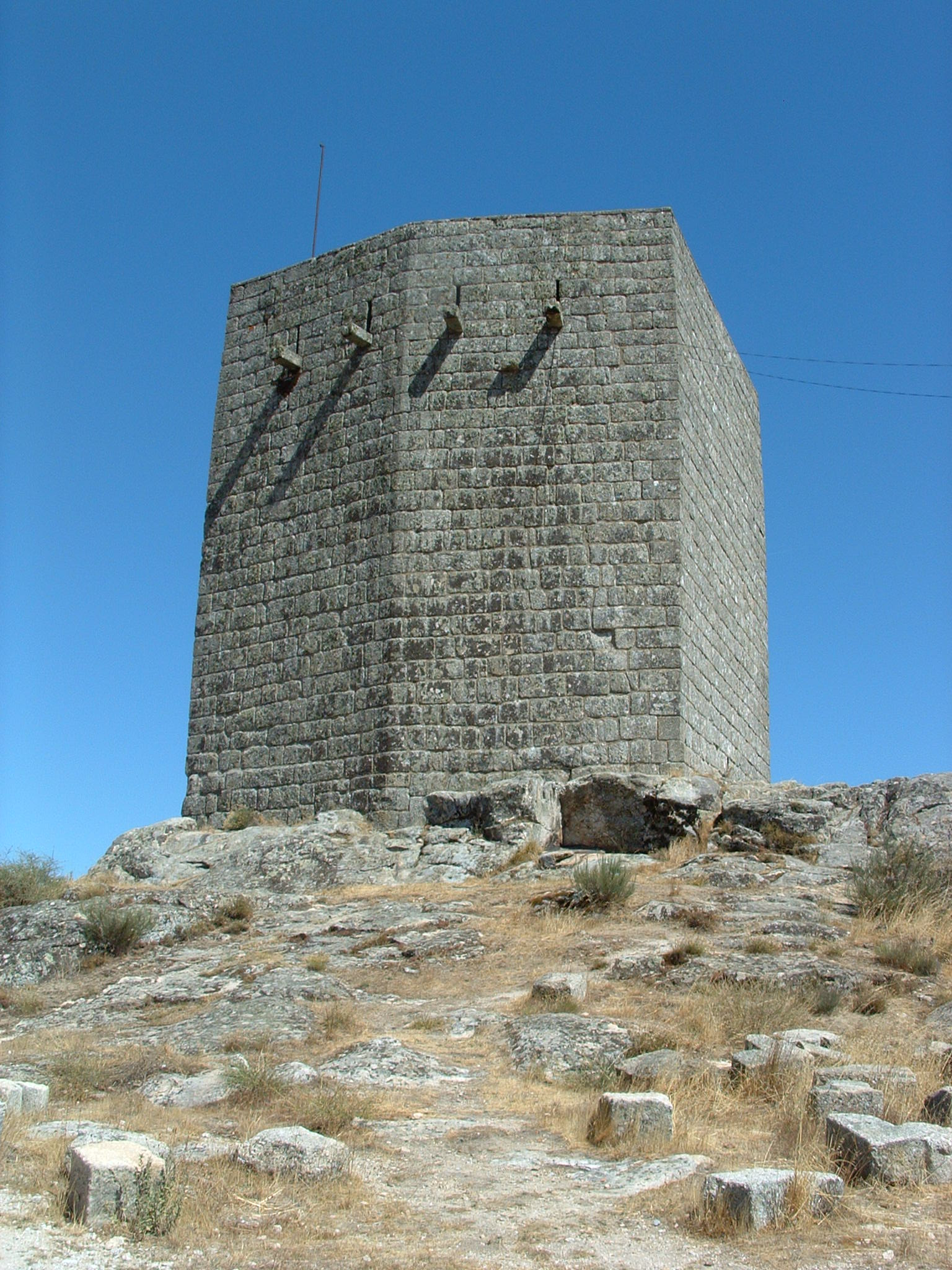 Castle of Guarda, Portugal